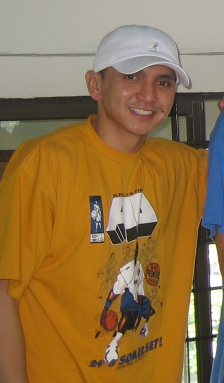 during the intramurals opening ceremonies in 2006.